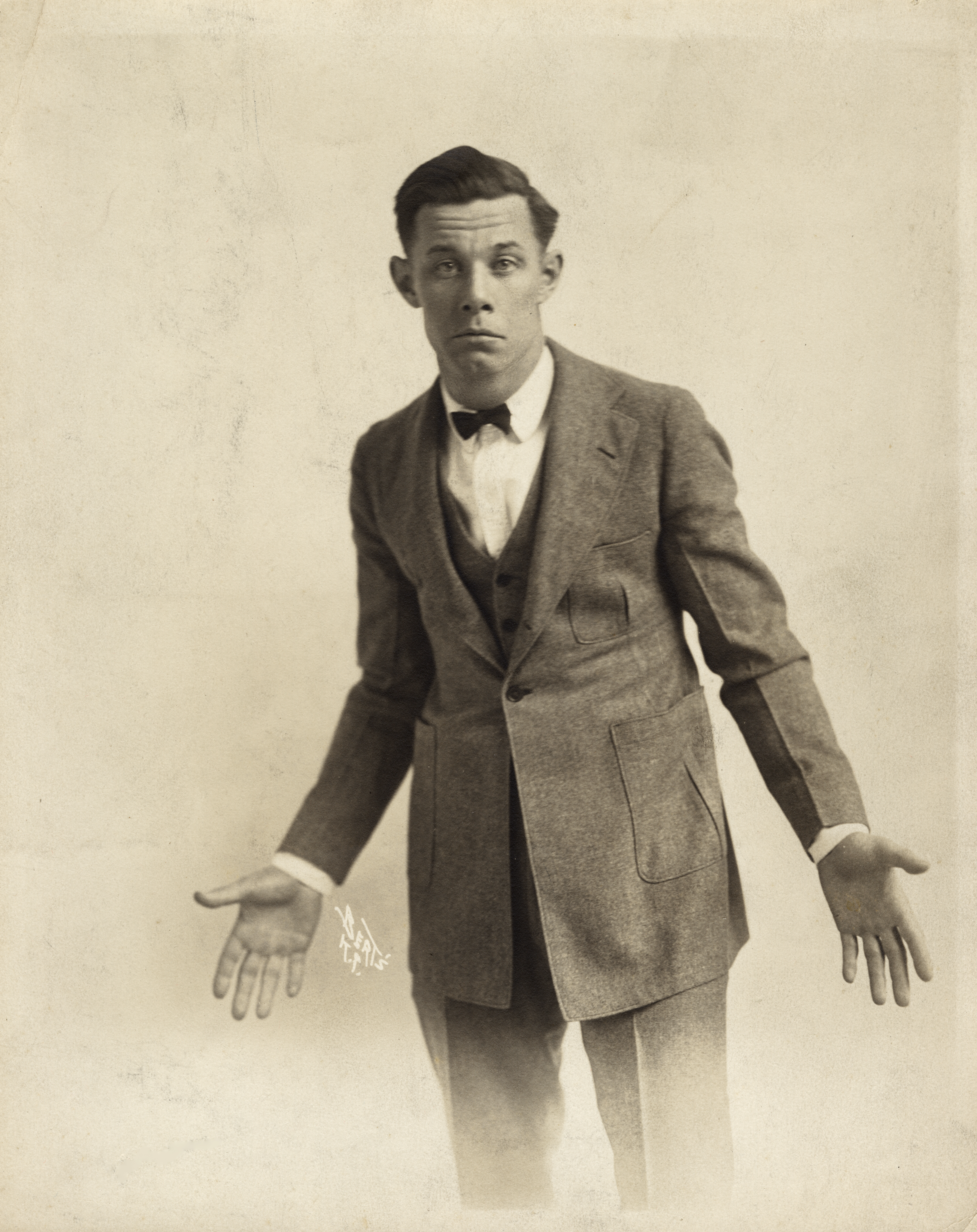 Publicity photography of vaudeville comedian Jack Kammerer, later known as Jack Cameron, taken during his stint on the Burlesque wheels. He starred in burlesque comedies with Sliding Billy Watson and Pat White.